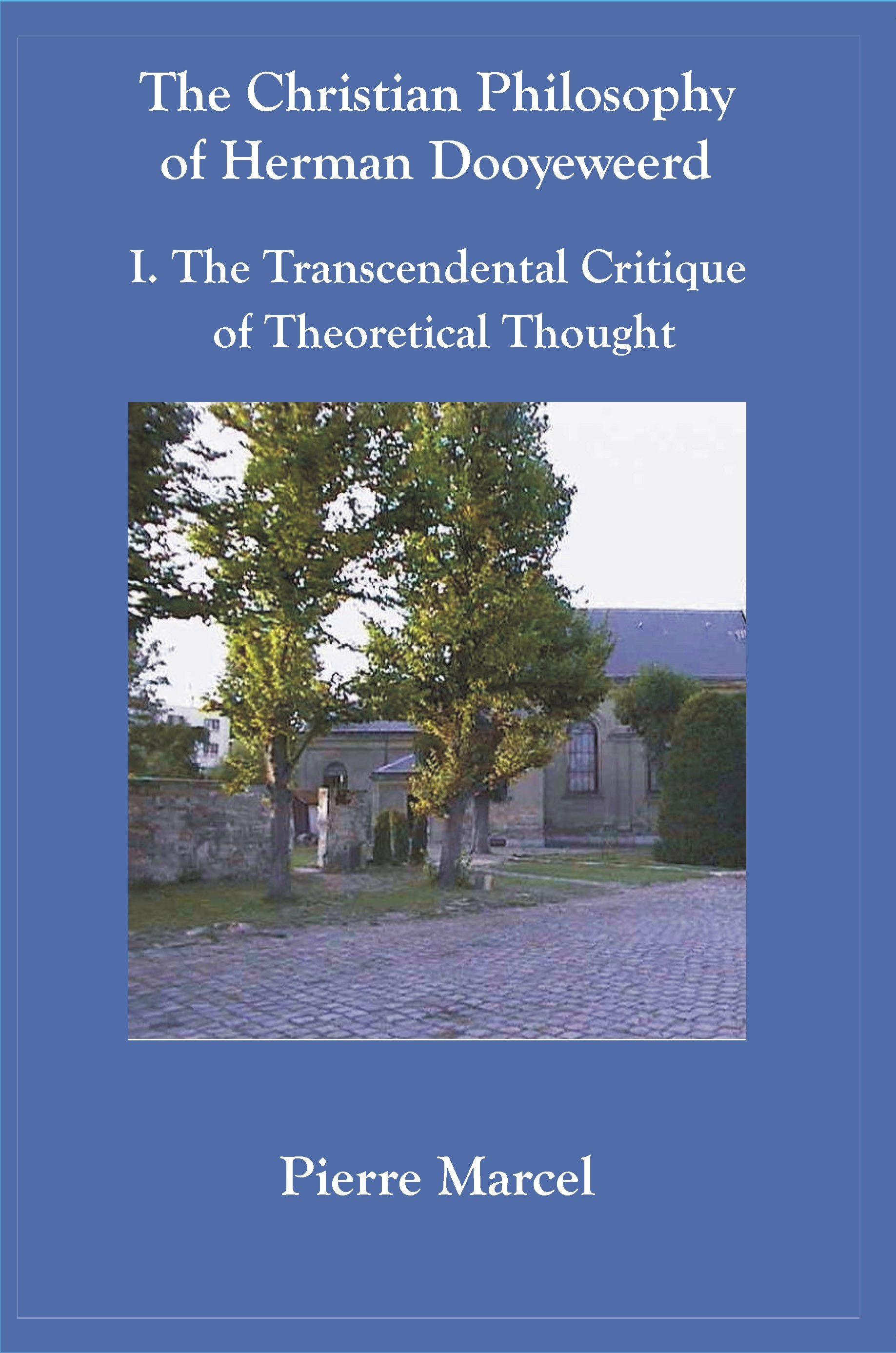 Marcel Book